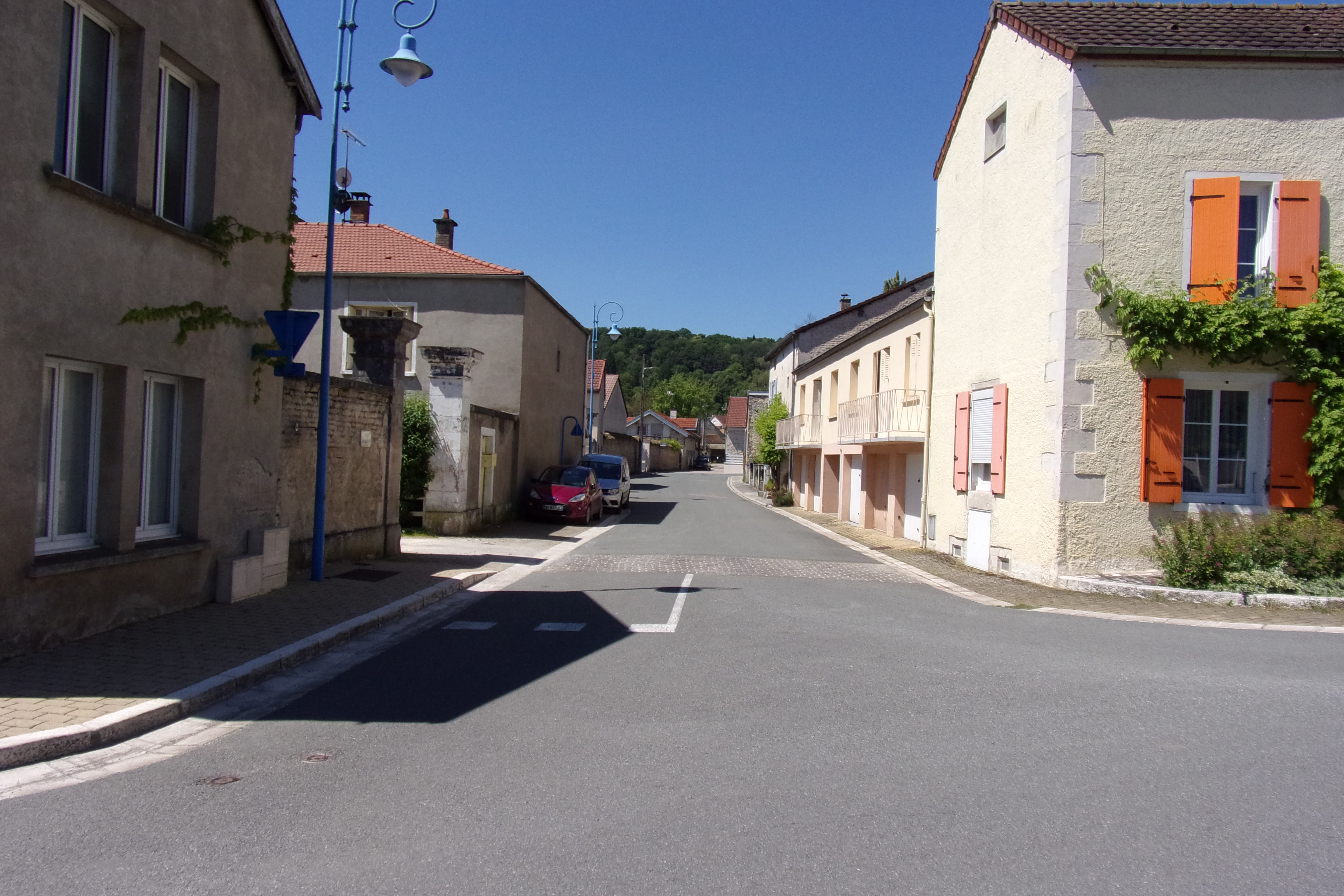 Main street of Chamarandes (Haute-Marne, France).